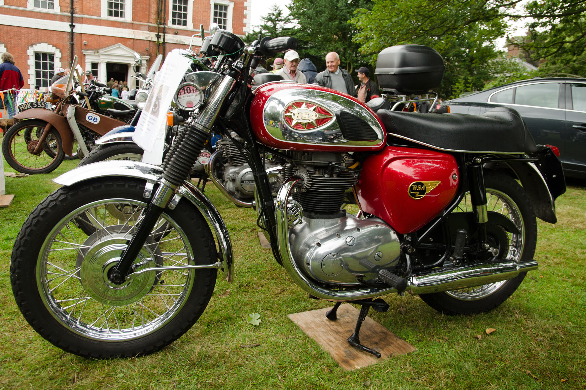 Lytham Hall Classic Car Show 03/08/2014